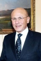 Mehmet Ali Talat, the second president of Northern Cyprus.